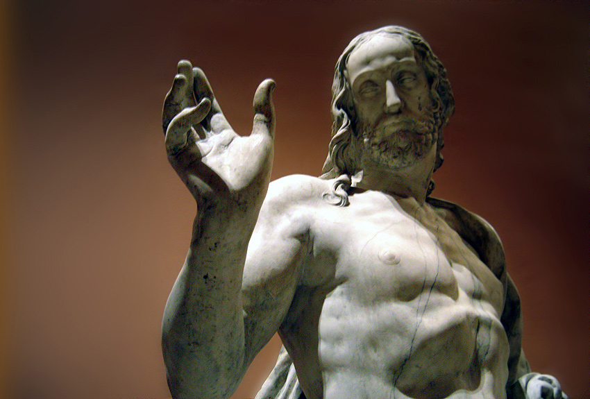 Jesus Christ, part of the Resurrection group. Marble, before 1572.